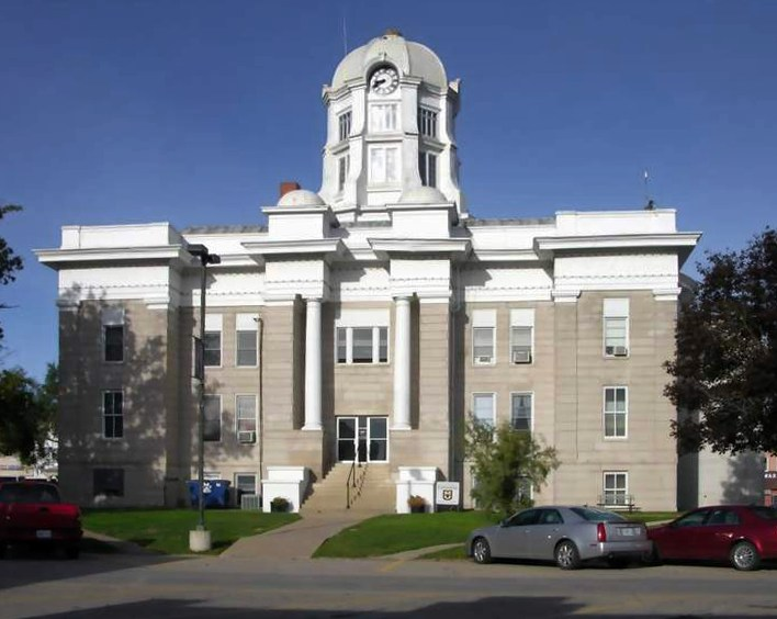 Scotland County, Missouri courthouse as it appeared in September, 2012.